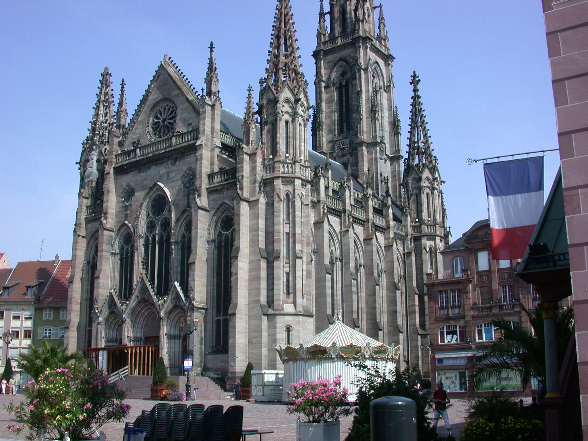 St Stephen's Church of Mulhouse (France)